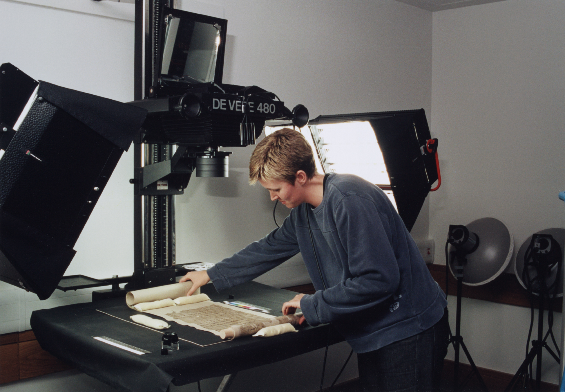 Digitisation of a Dunhuang manuscript in the IDP UK studio. (De Vere 480 Copy Camera)